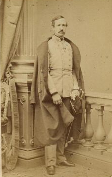 The last Duke of Modena, Francesco V of Habsburg-Este (1819-1875).